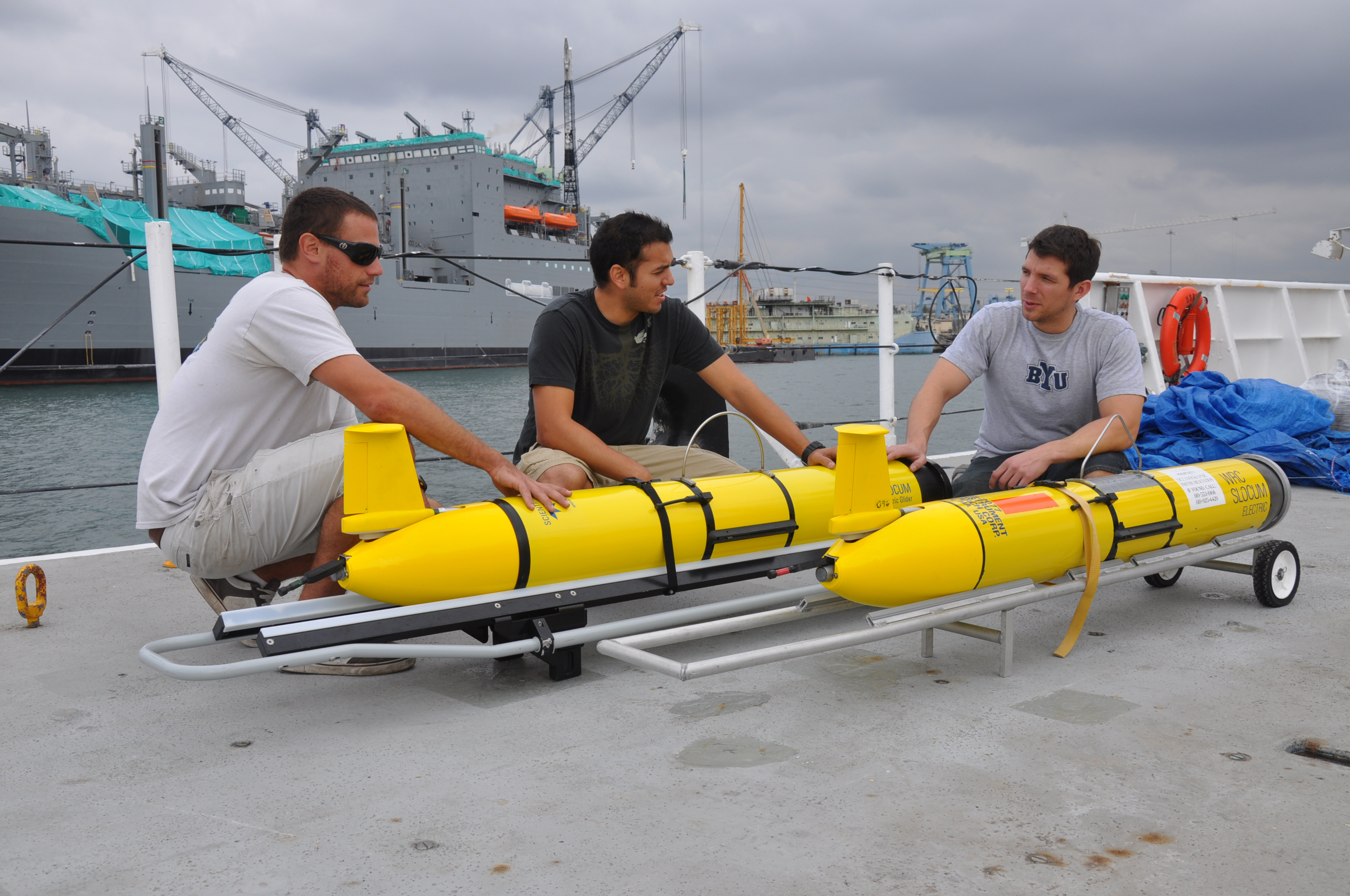 Daniel Braun, left, Eric Sanchez and David Barney, Systems Center Pacific engineers at Space and Naval Warfare Systems Command, perform pre-deployment inspections on littoral battlespace sensing gliders aboard the Military Sealift Command oceanographic survey ship USNS Pathfinder. Each glider hosts a payload suite of sensors that will measure the physical characteristics of the water column as the glider routinely descends and ascends in the ocean. The gliders will be deployed during an at-sea test aboard Pathfinder Oct. 22 - Nov. 5.